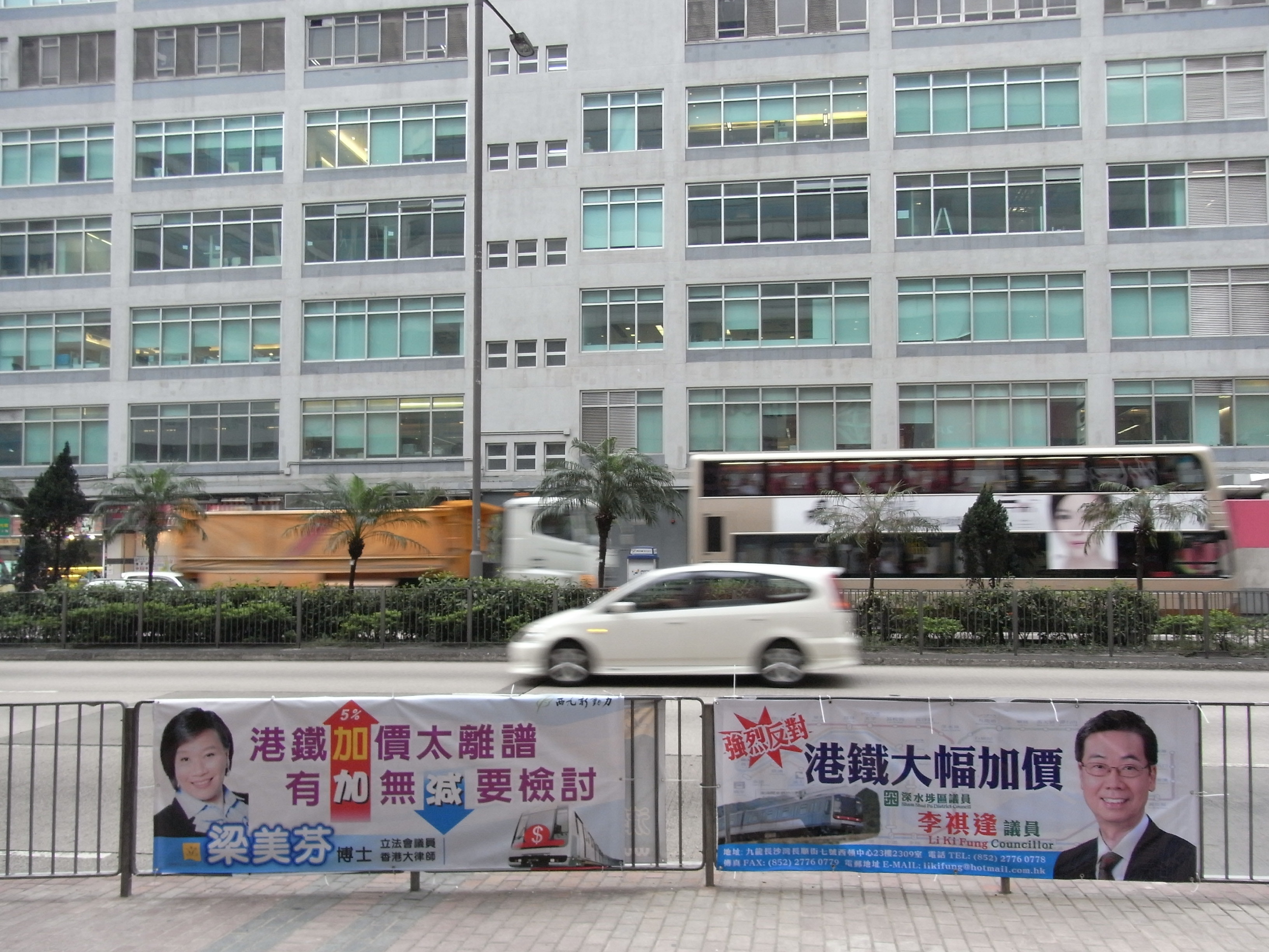 長沙灣道, Cheung Sha Wan Road, Sham Shui Po District, Hong Kong